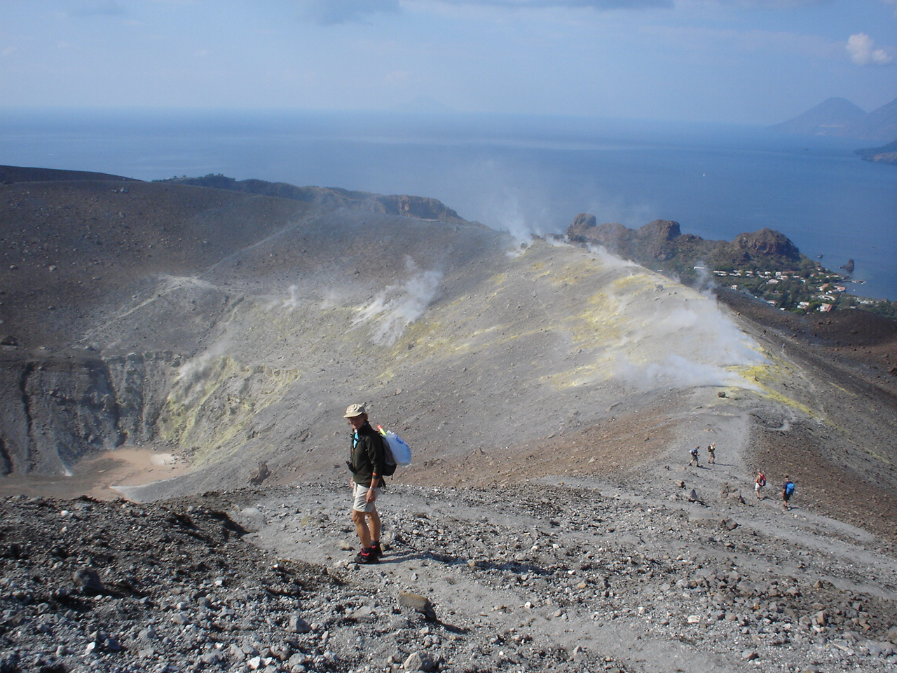 View from top of Vulcano, volcano on the Italian island of Vulcano